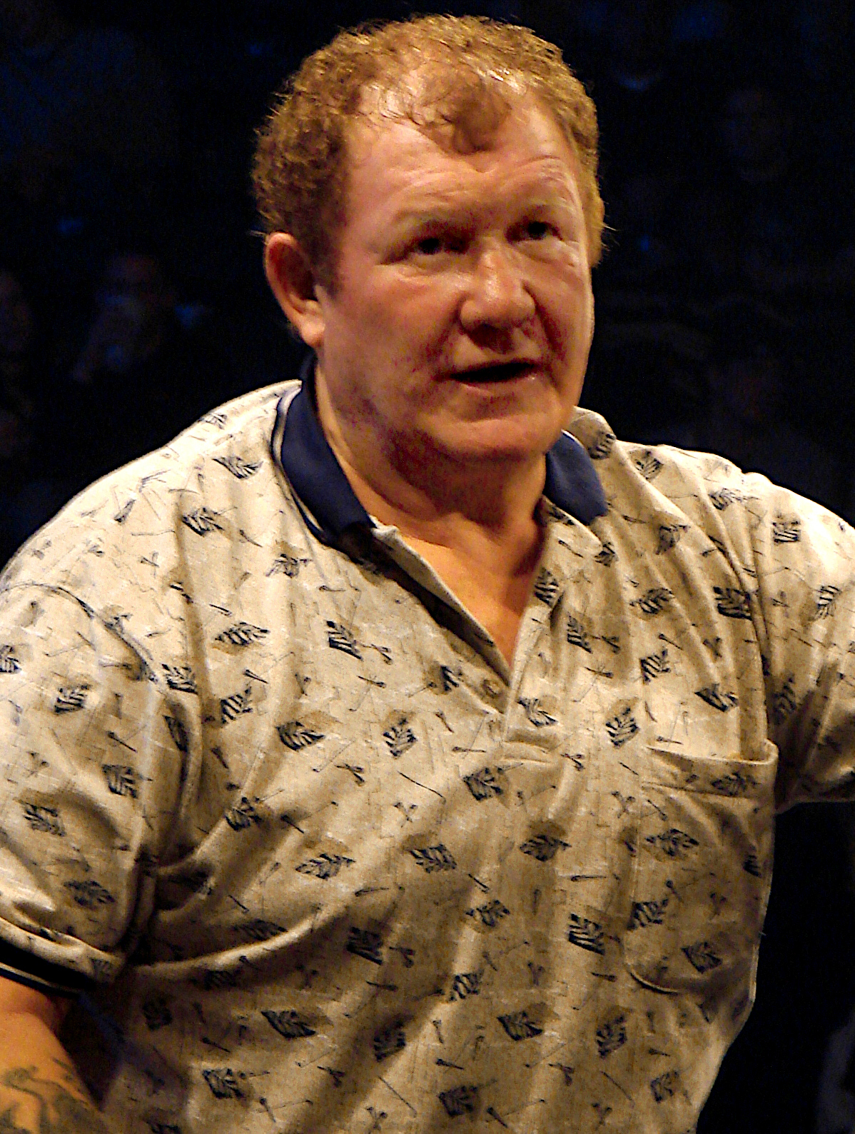 Harley Race at TNA Lockdown.